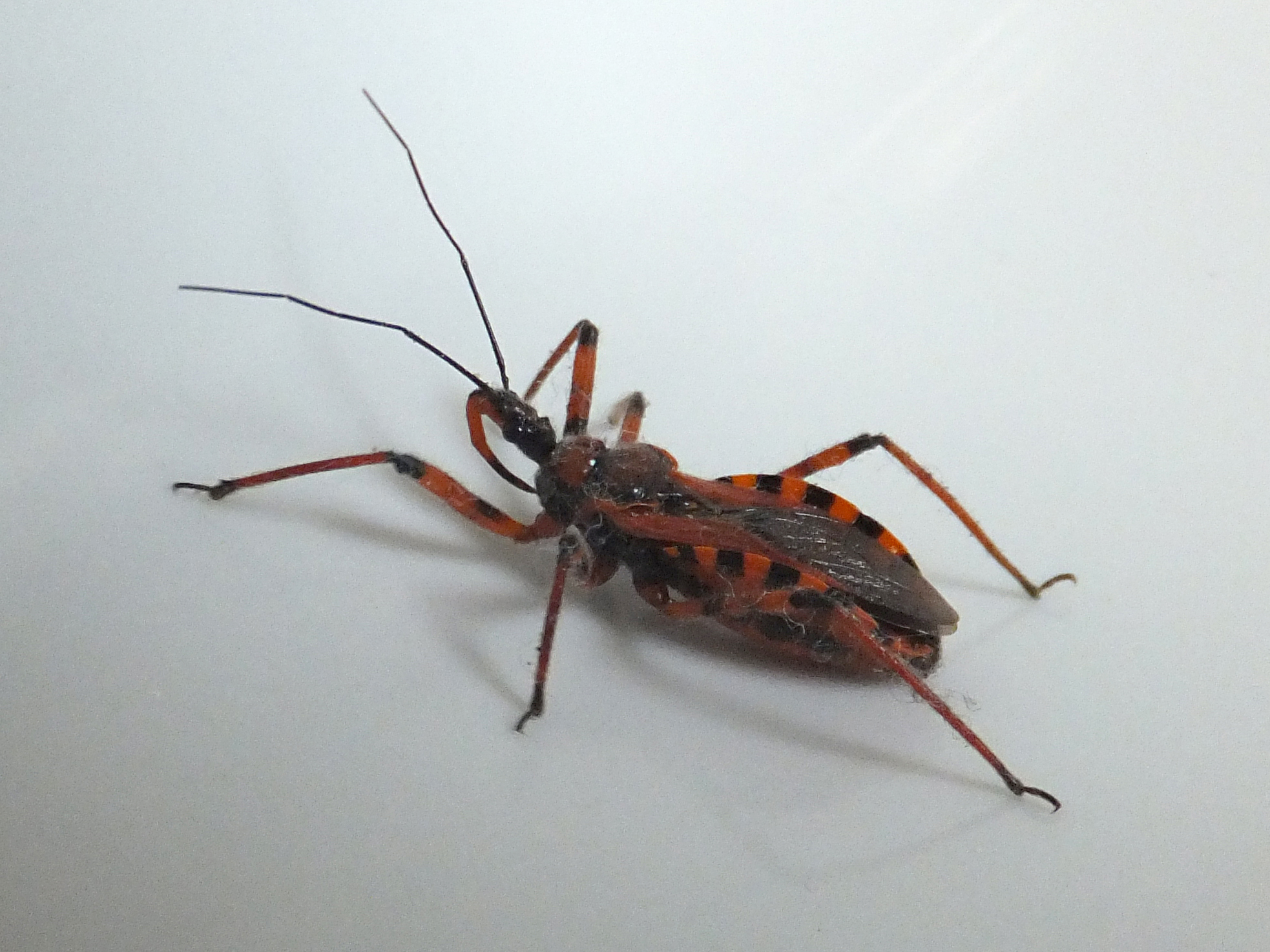 A killer bug (Rhynocoris iracundus) photographed in Piazzo (Segonzano, Italy)